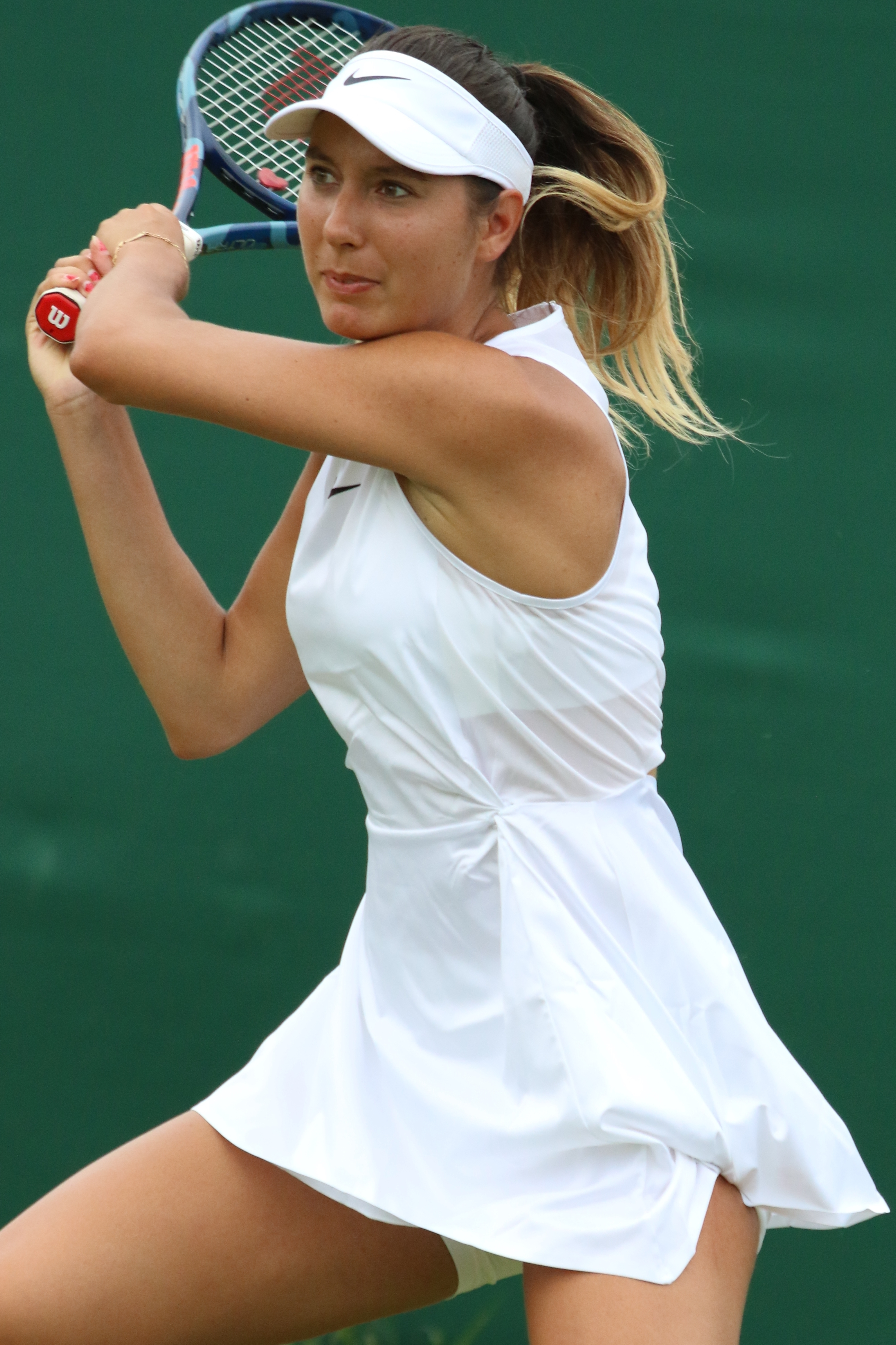 2019 Wimbledon Qualifying Tournament.